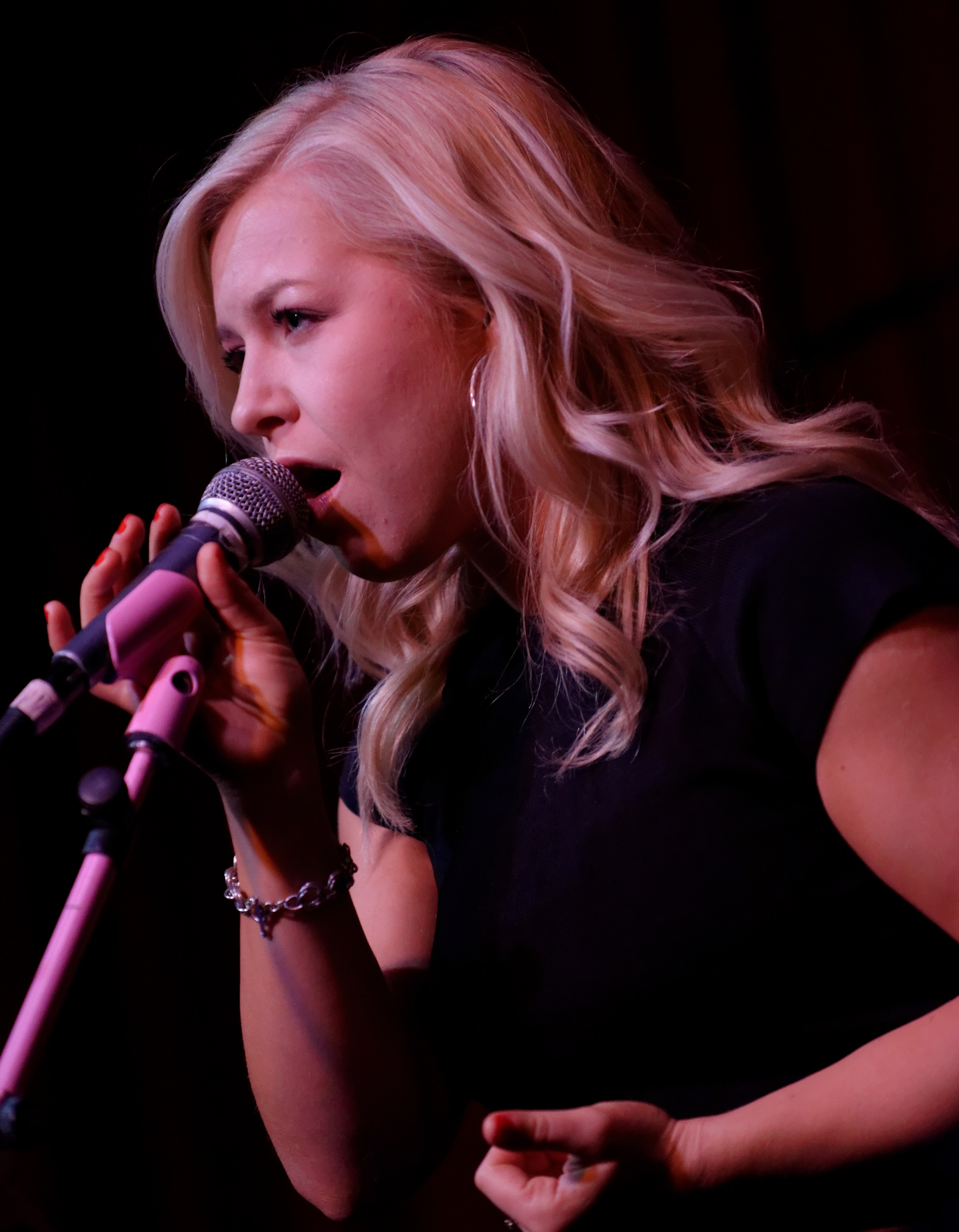 Maggie Szabo performing at the Hotel Cafe in 2014